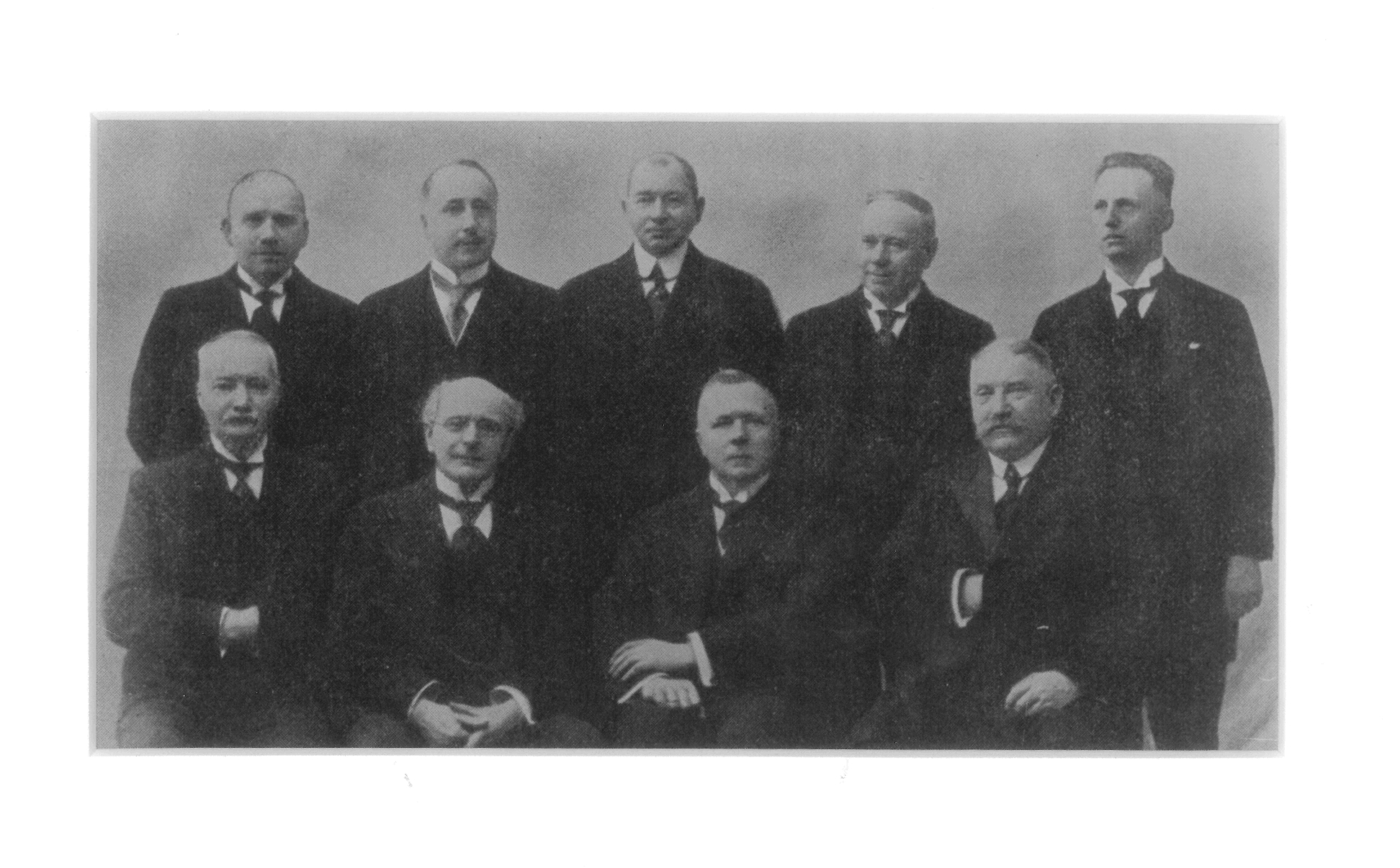 Johan Ludwig Mowinckels andre regjering (15. februar 1928-12. mai 1931).